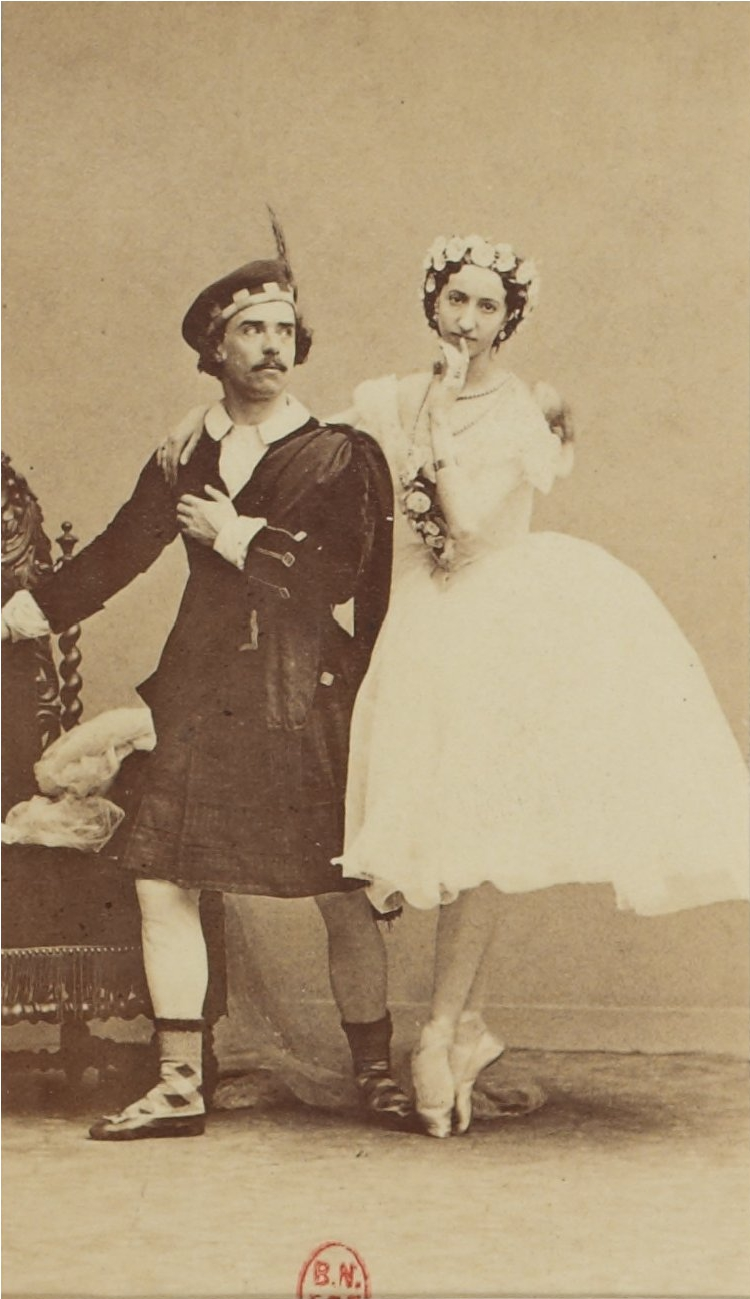 Portrait of Louis Mérante and Emma Livry in the ballet La Sylphide Portrait de Louis Mérante et Emma Livry, certainement dans leurs rôles de La Sylphide